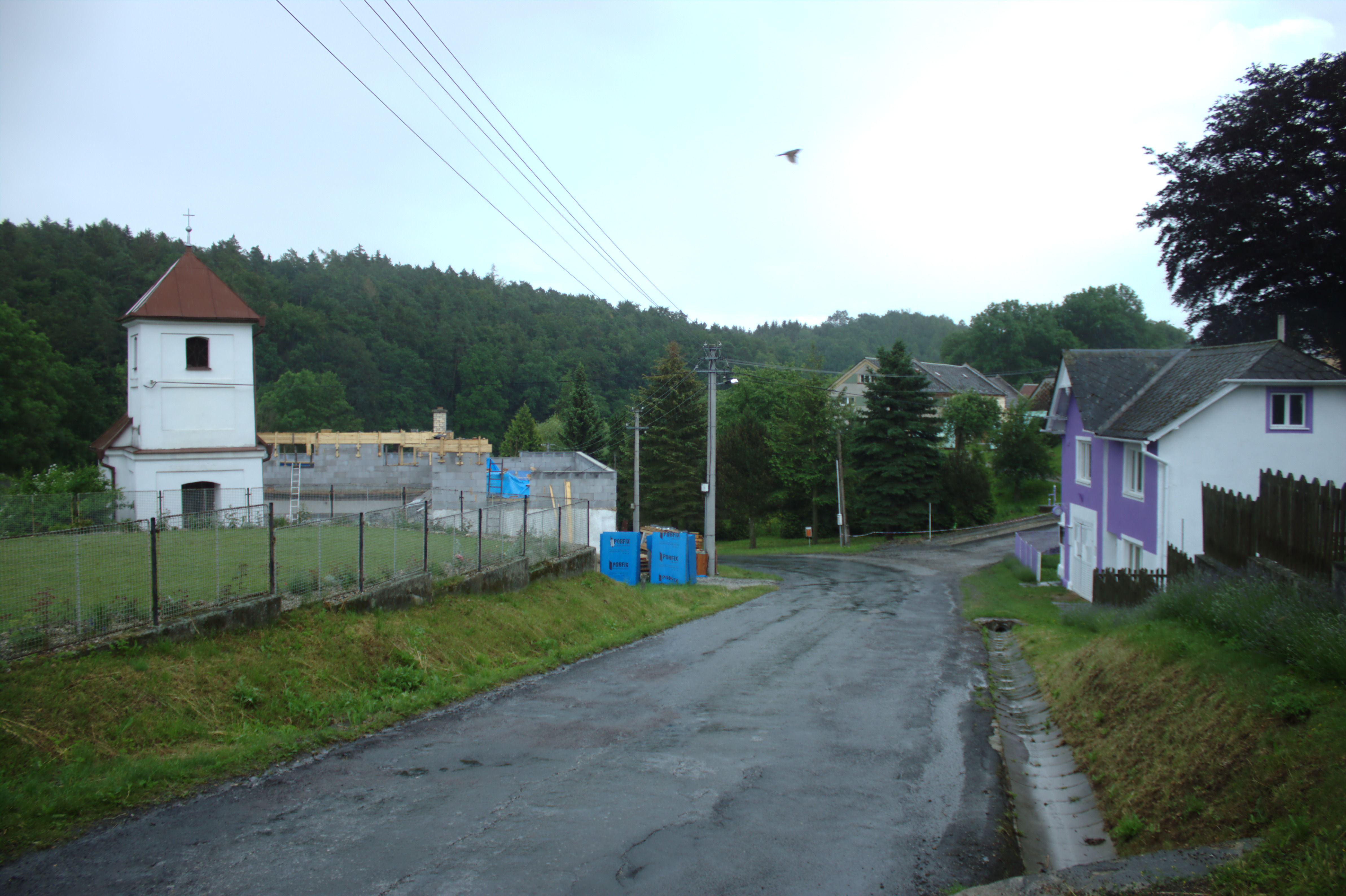 Main road in Bezděkov u Úsova, Olomouc Region, CZ